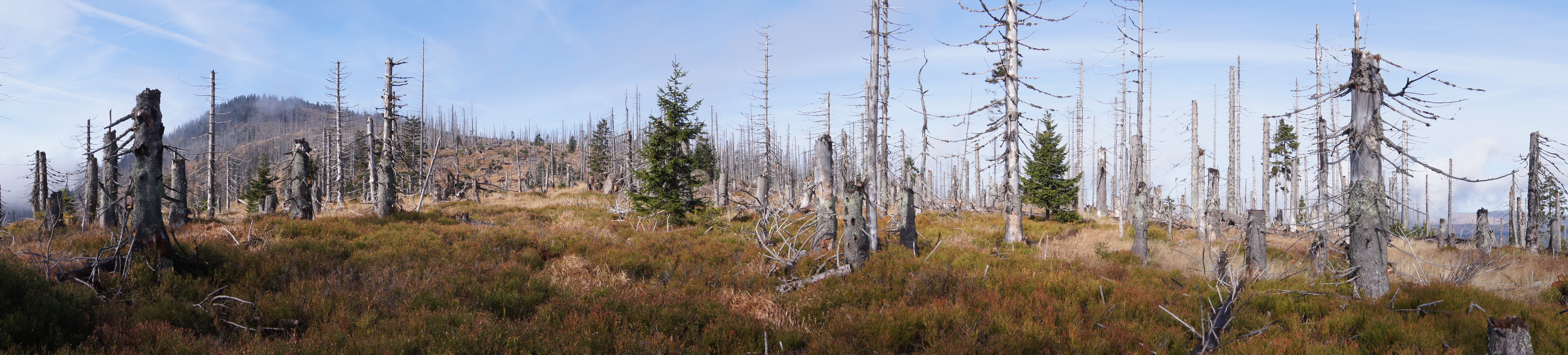 View of the Rachel mountain from the Czech Border